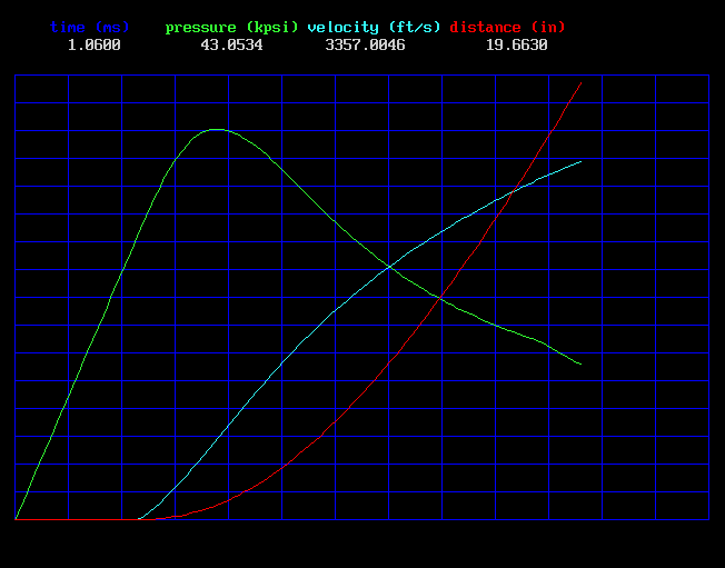 Internal ballistics plot of simulated 5.56mm NATO round